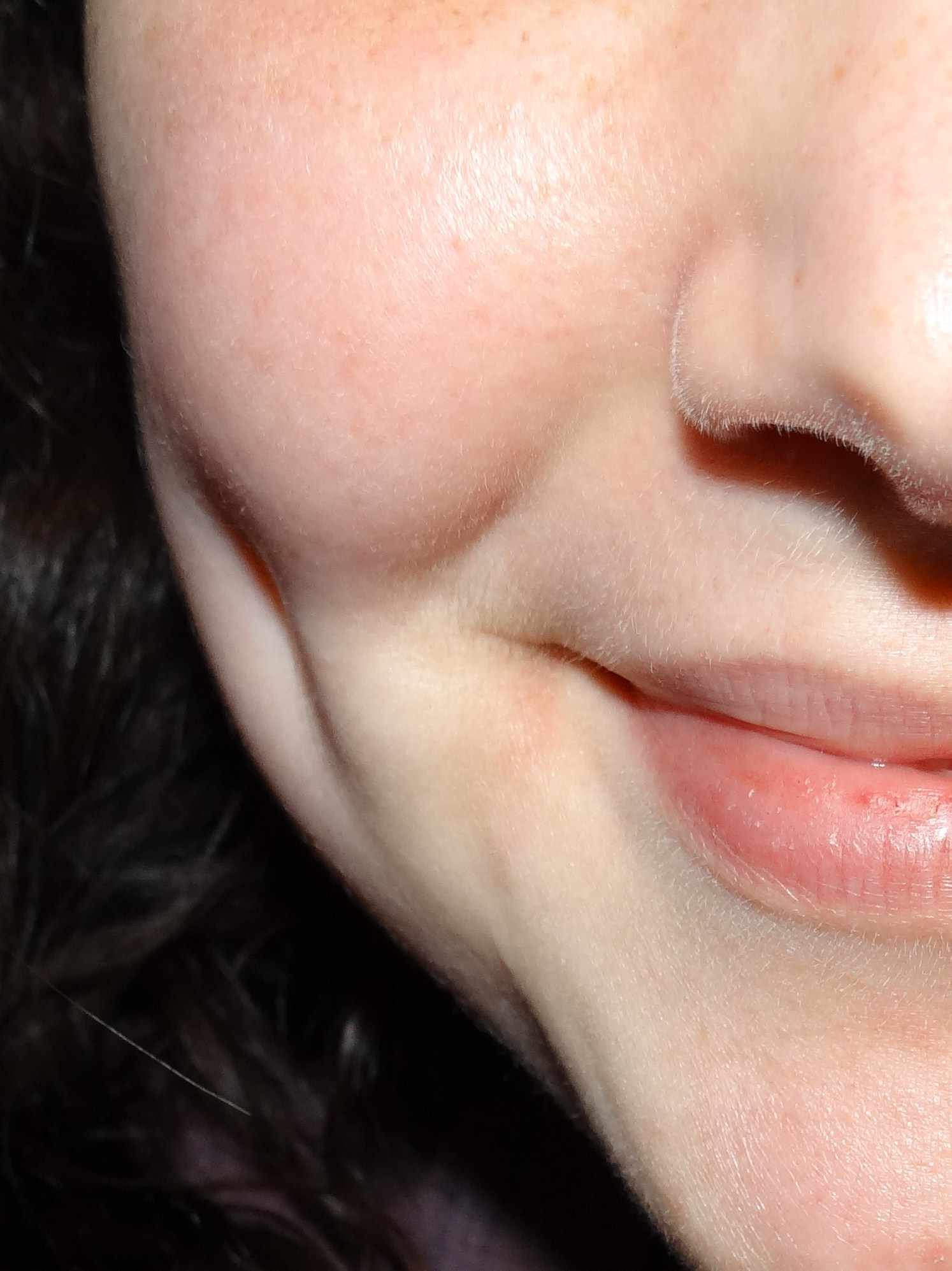 Dimple